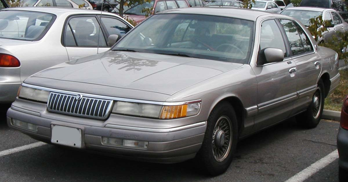 1992-1994 Mercury Grand Marquis photographed in USA.